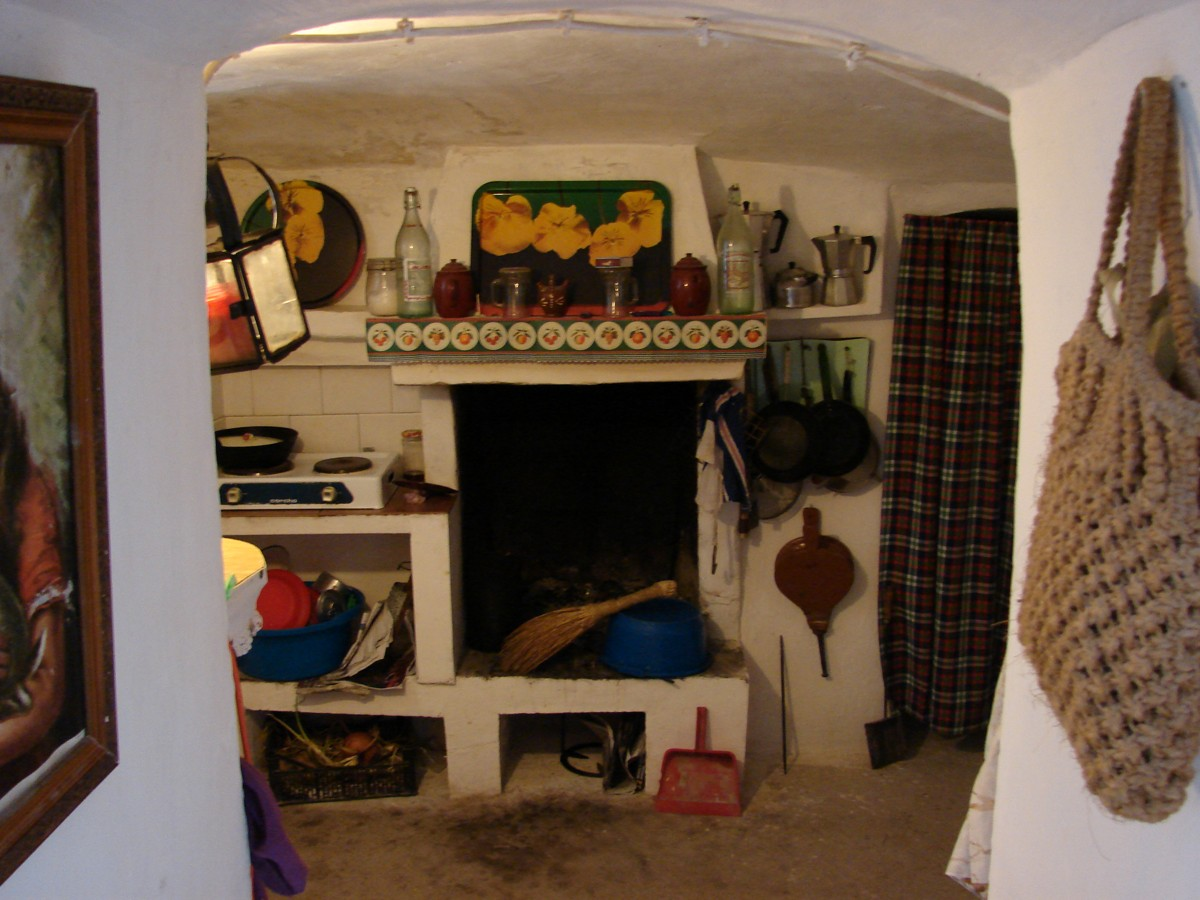 Interior de una casa cueva (Illana - Guadalajara)